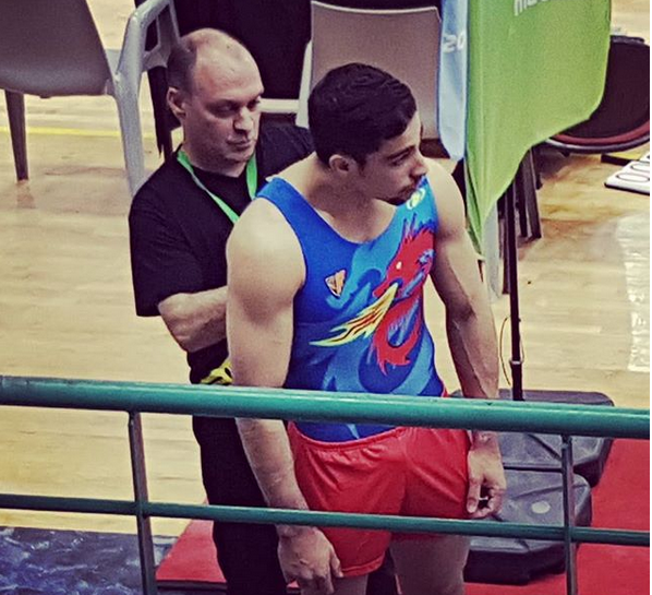 Álvaro Montesinos and Jeroni Casassas in Matosinhos in 2018